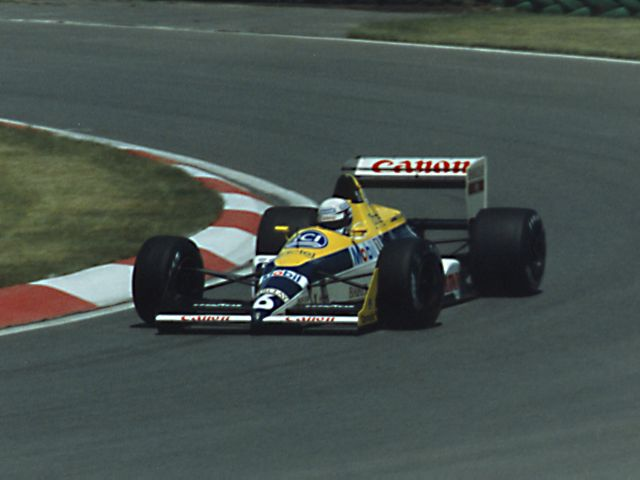 Riccardo Patrese driving for WilliamsF1 at the 1988 Canadian Grand Prix.